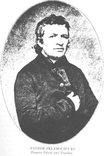 Rev. J.A.M. Pelamourges, French missionary priest in the Diocese of Dubuque and first pastor of St. Anthony's Church, Davenport, Iowa.